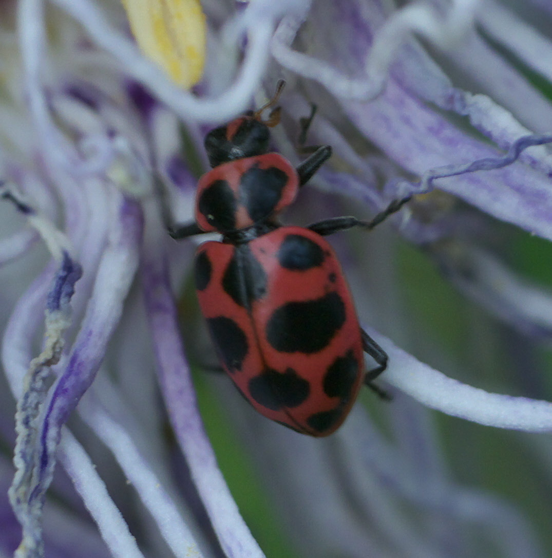 Coleomegilla maculata, pink spotted lady beetle, on a passion flower, ID Confidence: 87